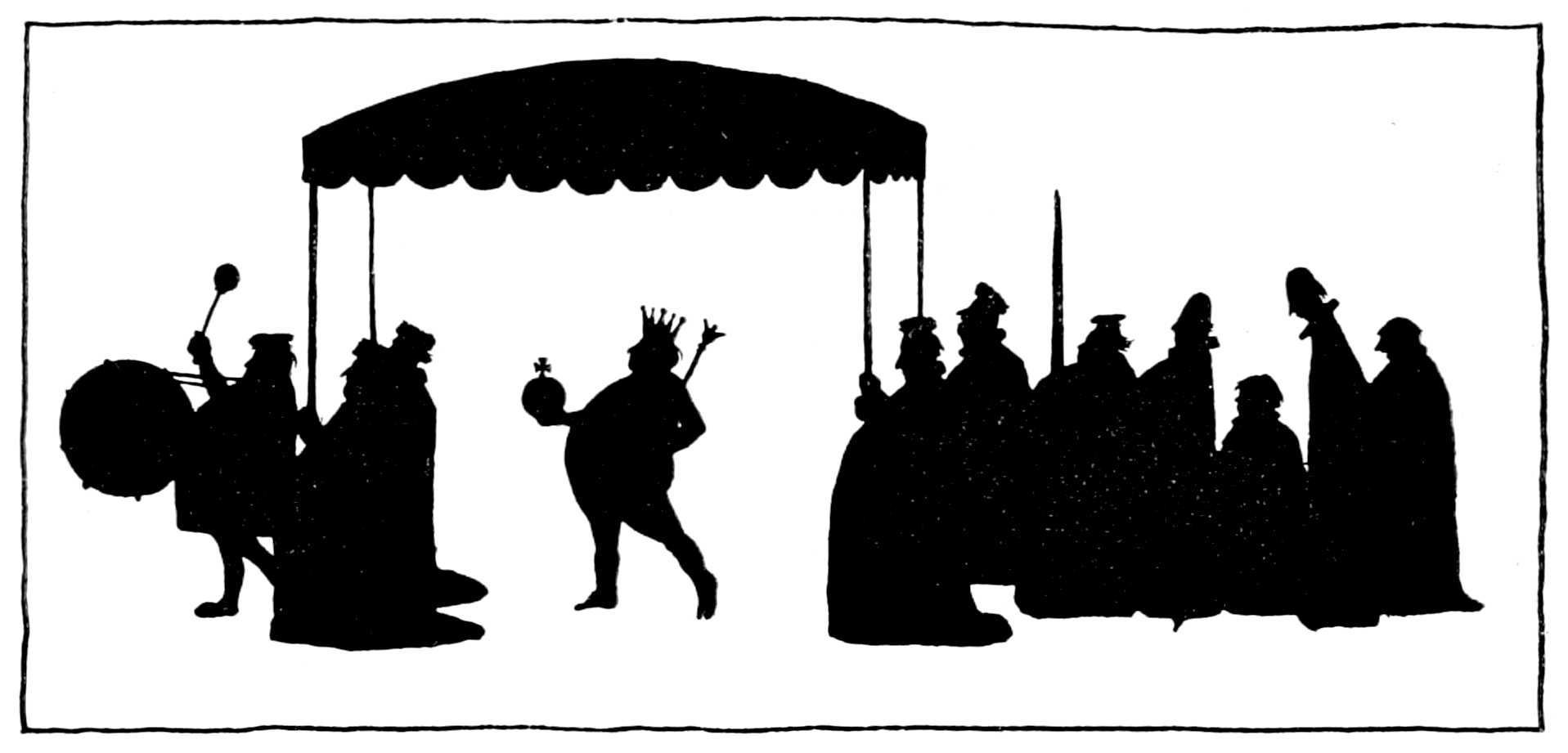 Black and white illustration in Hans Andersen's fairy tales (1913) London: Constable.